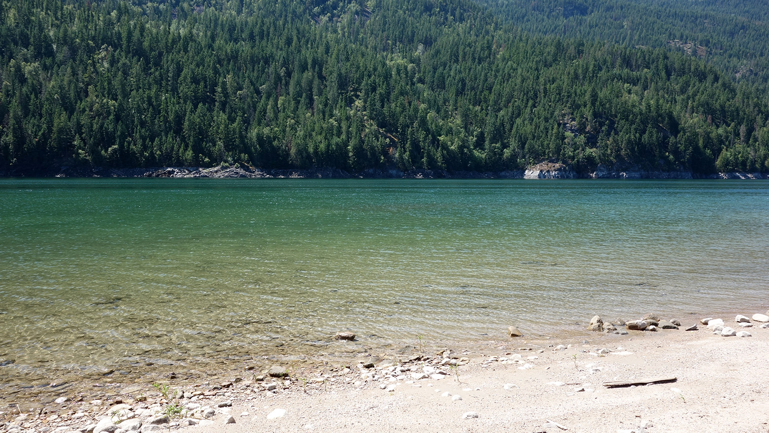 The Columbia River at Syringa Provincial Park, near Castlegar, Canada